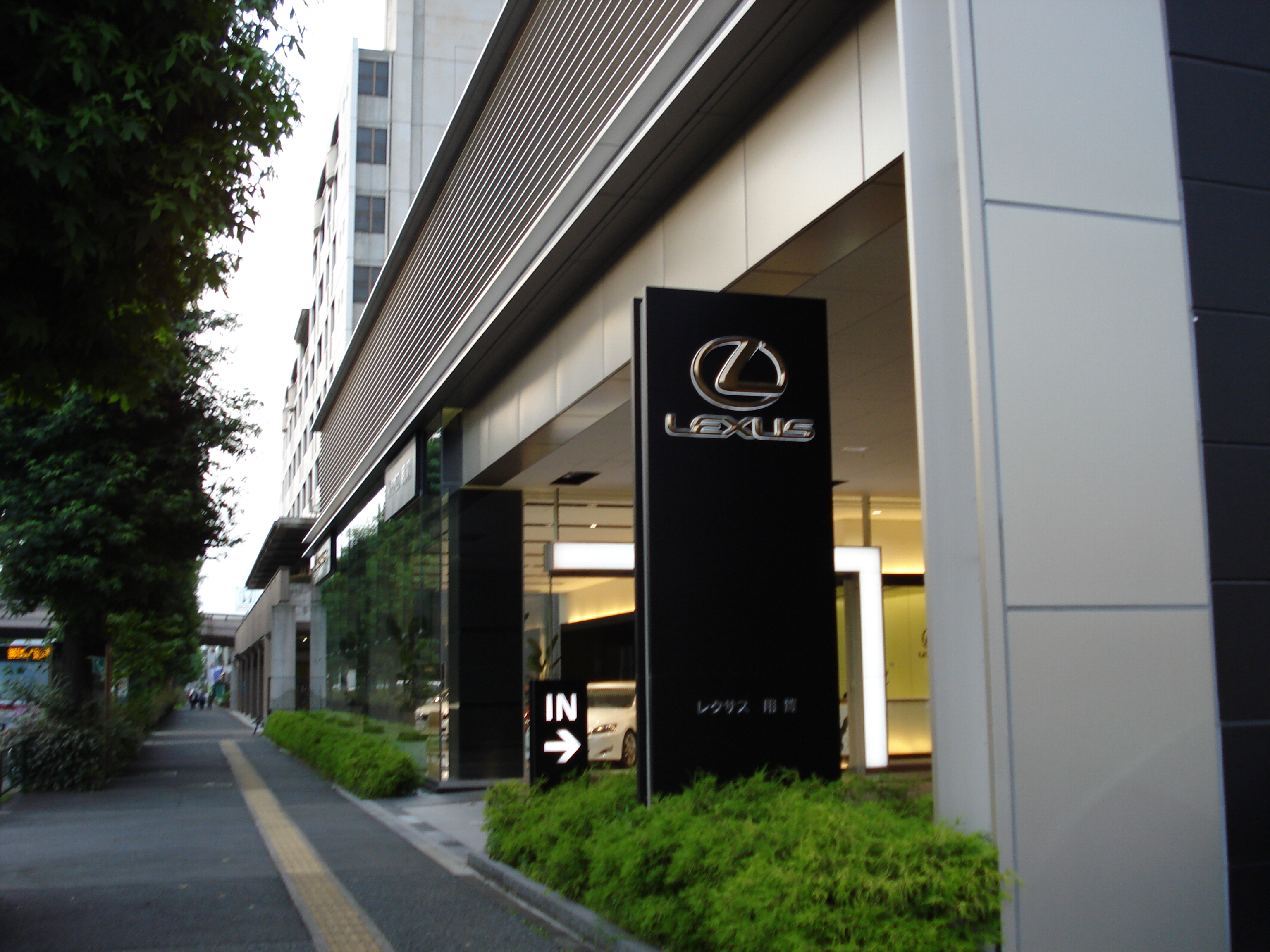 Car dealership